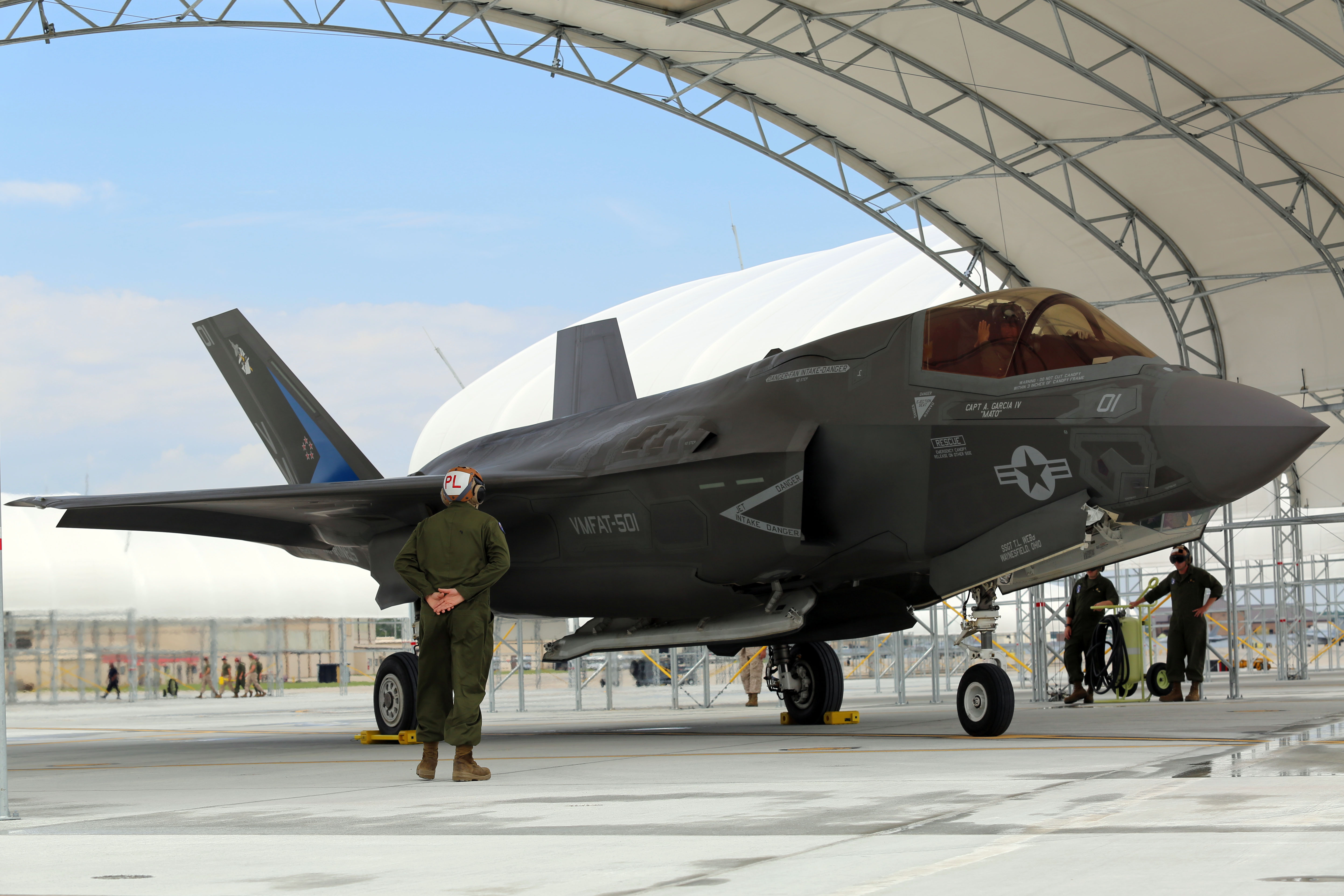 The first F-35B Lightning II Joint Strike Fighter assigned to Marine Fighter Attack Training Squadron 501 arrived at Marine Corps Air Station Beaufort, July 17. The aircraft is the first to join VMFAT-501 at MCAS Beaufort since relocating from Eglin Air Force Base, Fla. last week.The F-35B Lightning II Joint Strike Fighter will replace the Marine Corps' aging legacy tactical fleet. In addition to replacing the F/A-18A-D Hornet, the Marine Corps will replace the AV-8B Harrier and EA-6B Prowler. The integration of the F-35B Lightning II Joint Strike Fighter into the Marine Corps' arsenal provides the dominant, multi-role, fifth-generation capabilities needed across the full spectrum of combat operations to deter potential adversaries and enable future naval aviation power projection.